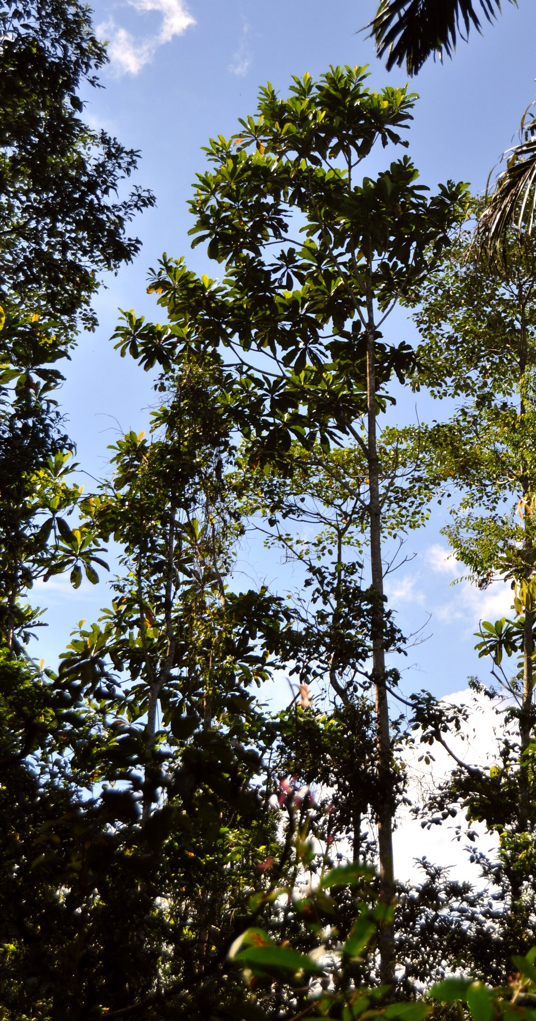 Campnosperma auriculatum, young tree habits. From Belitong, South Sumatra, Indonesia.